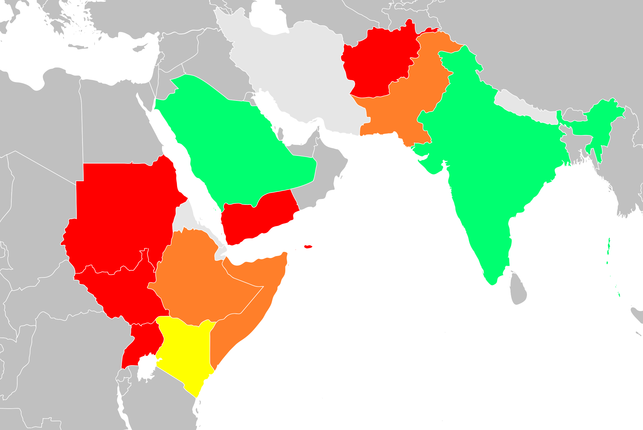 Nations coloured are affected by locust infestation. They are coloured by highest IPC phase classification, a measure of food security. Shown are Phase 1 (minimal/none) Phase 2 (stressed) Phase 3 (crisis) Phase 4 (emergency) and Phase 5 (critical emergency) and those with not enough data for a classification but acknowledged to be affected by the locust infestation (Iran, Eritrea, Djibouti and Nepal). Data: Base: File:BlankMap-World.svg Unaffected Affected, not enough data to classify IPC Phase 1 (Minimal) IPC Phase 2 (Stressed) IPC Phase 3 (Crisis) IPC Phase 4 (Emergency)